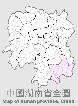 Maps of Hunan Province of China